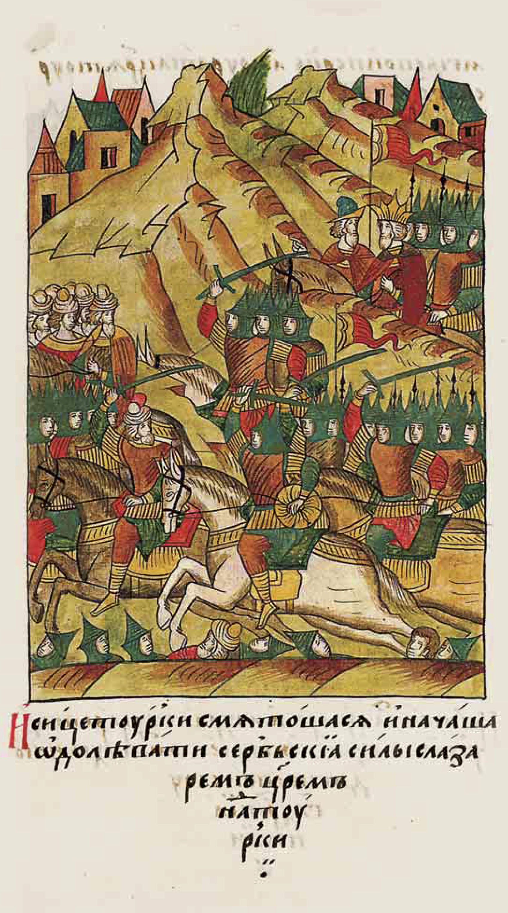 Battle of Kosovo 1389, old Russian miniature.